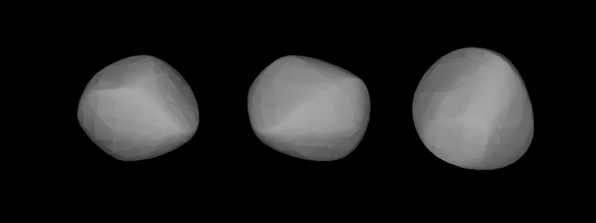 A three-dimensional model of 115 Thyra that was computed using light curve inversion techniques.